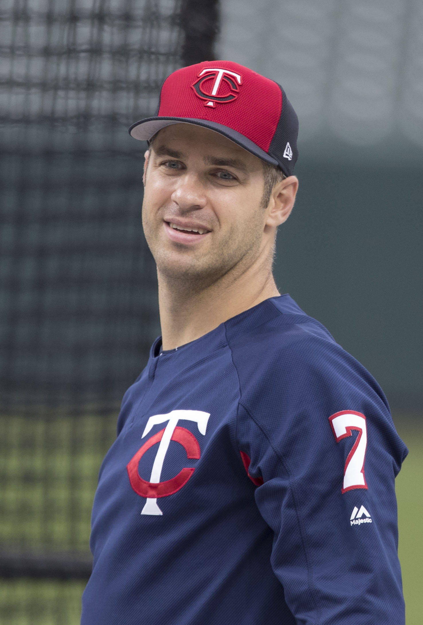 Twins at Orioles 5/22/17